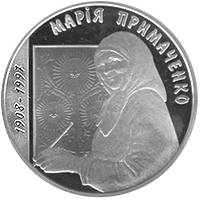 Coin of Ukraine